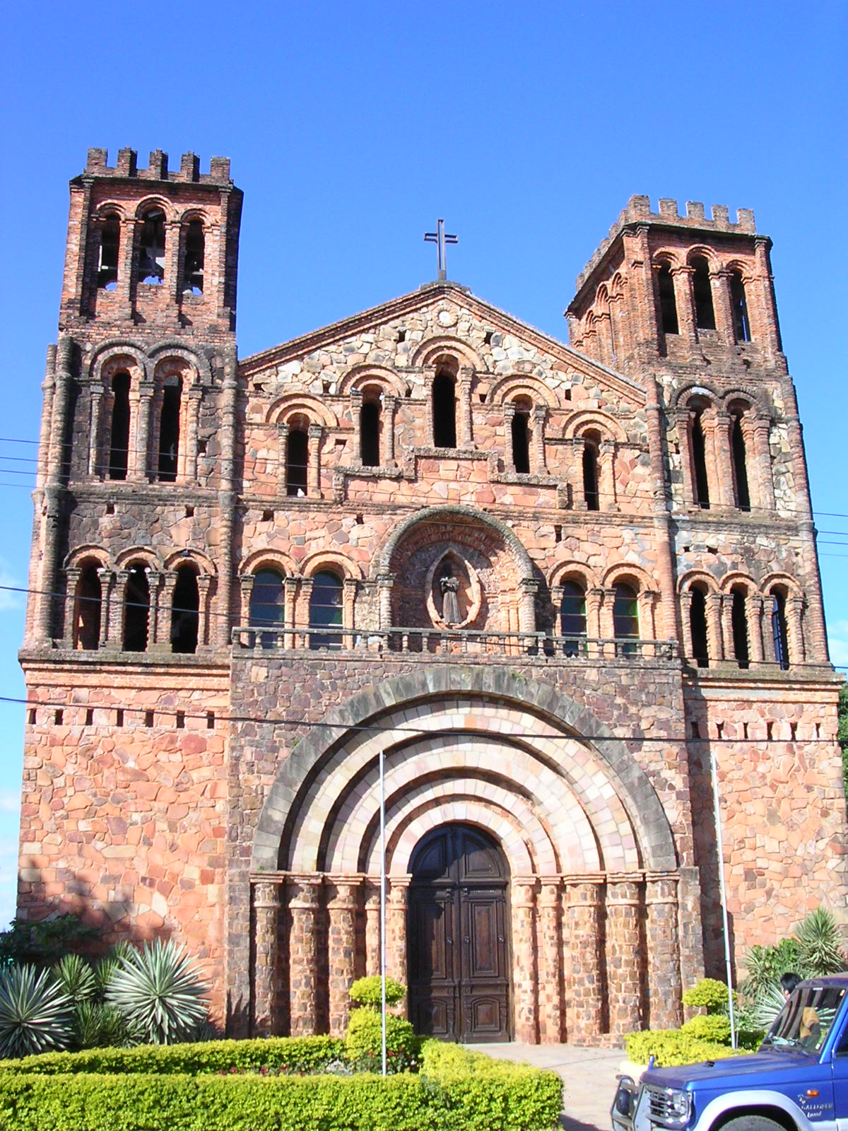 Church near the city of Villarrica, in Paraguay